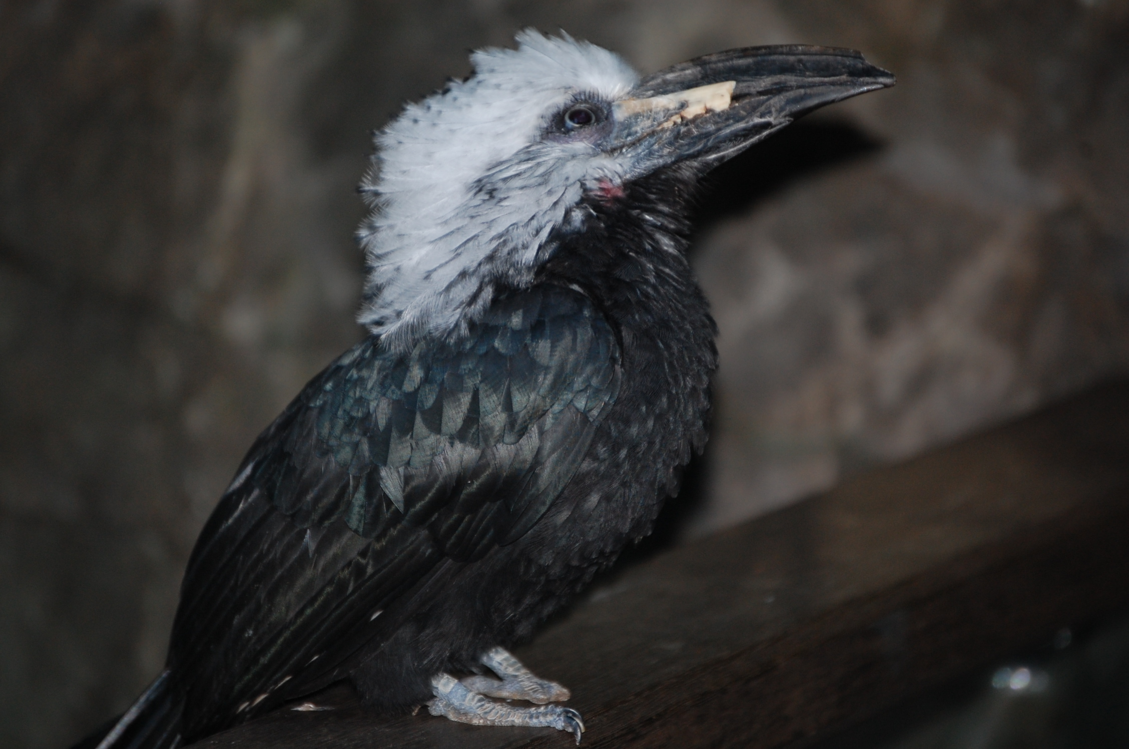 A White-crested Hornbill at Central Park Zoo, USA.